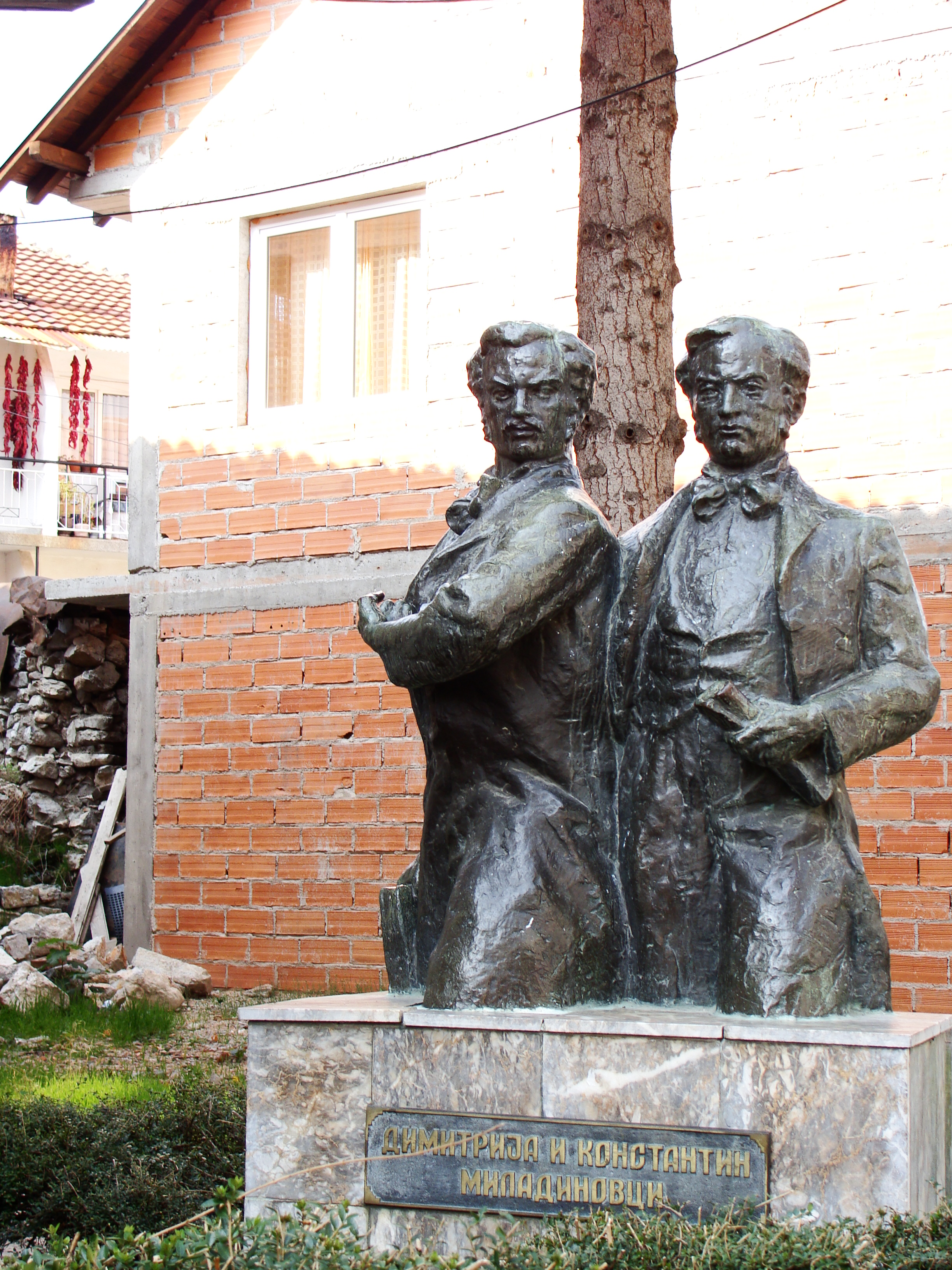 Struga, a town by the Ohrid lake Miladinovci brothers